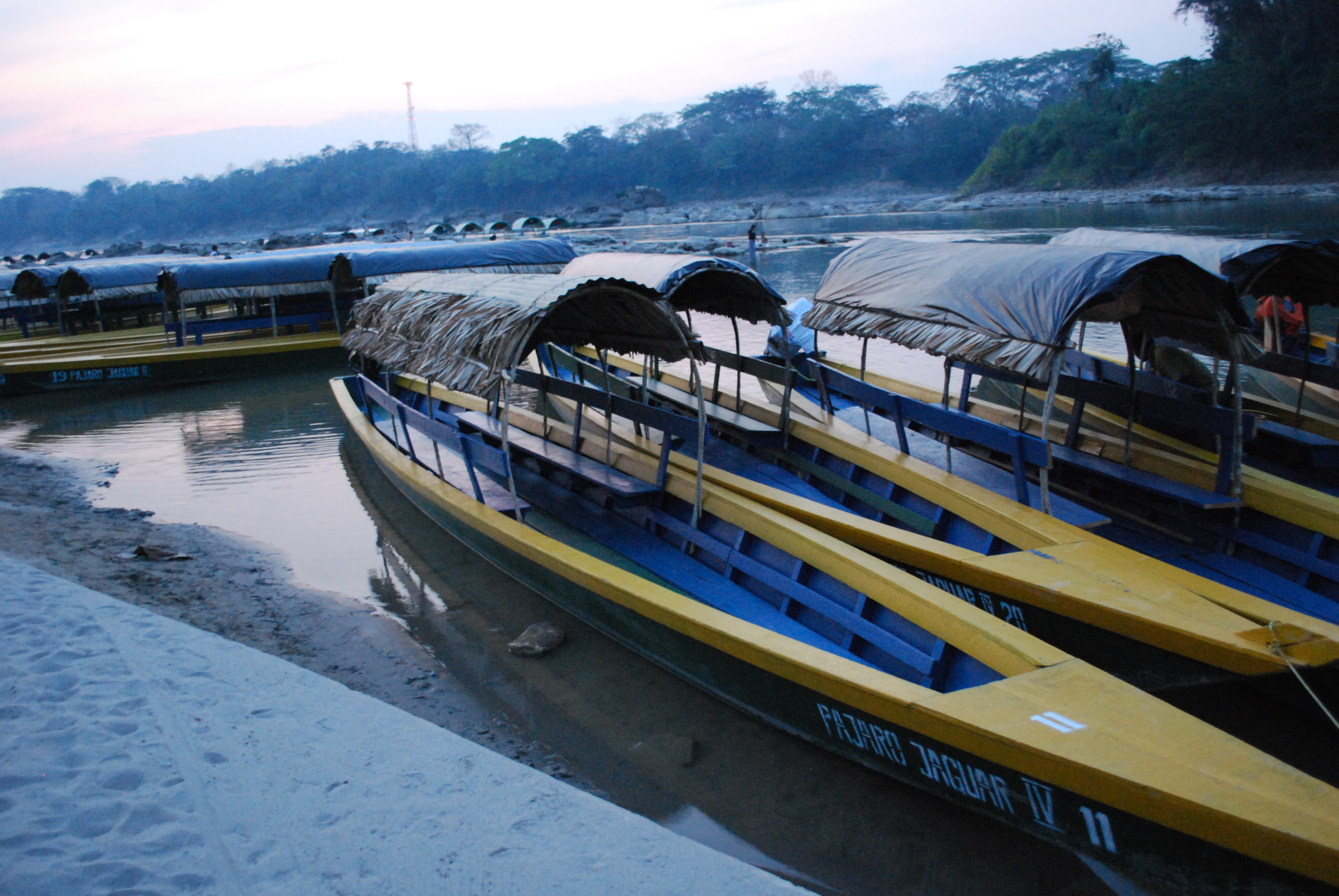 Lancha boats at the docks of Frontera Corozal, Chiapas, Mexico